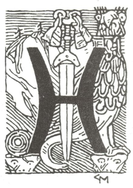 Gerhard Munthe: Illustration for Halvdan Svartes saga, Heimskringla 1899-edition. Initial.